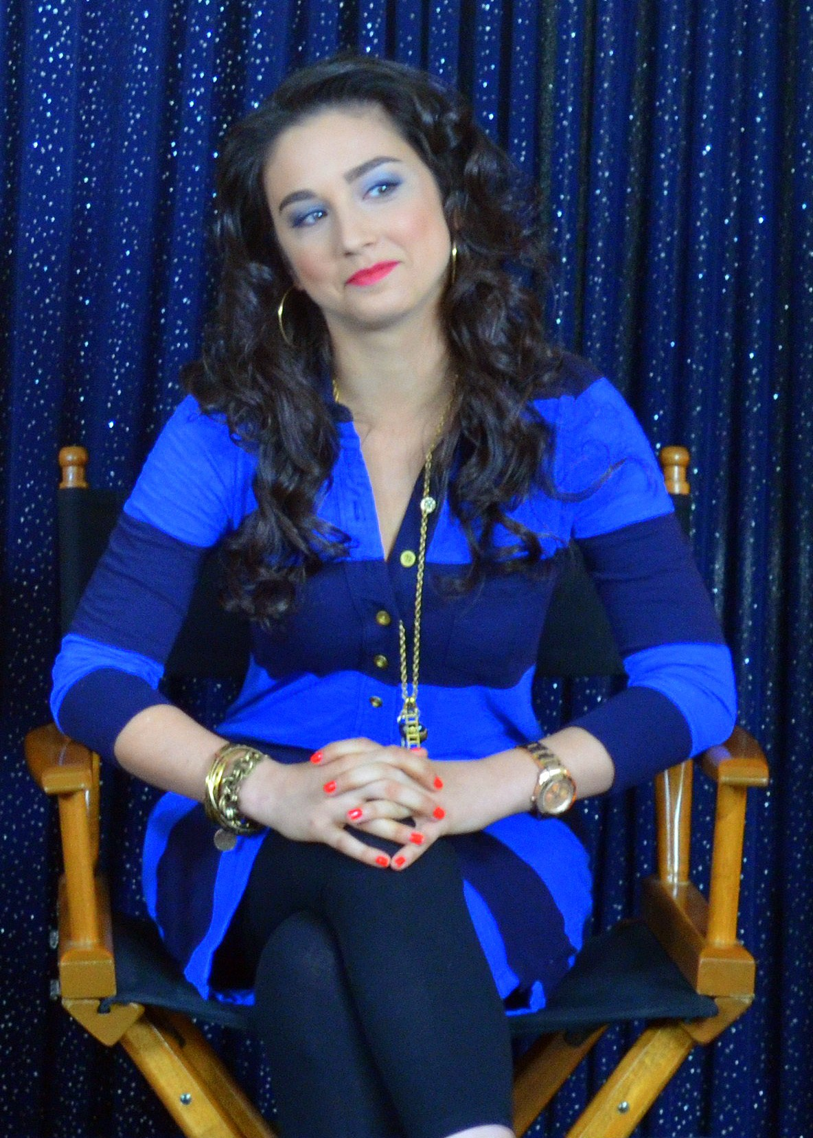 Actress Molly Eprhraim on the set of ABC's Last Man Standing in 2012.